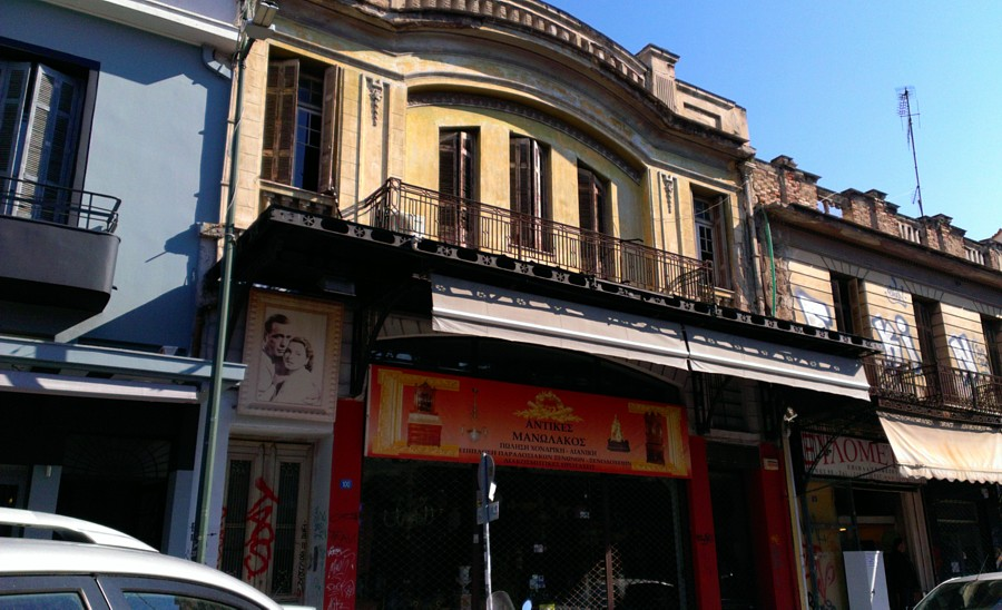 avisinnias